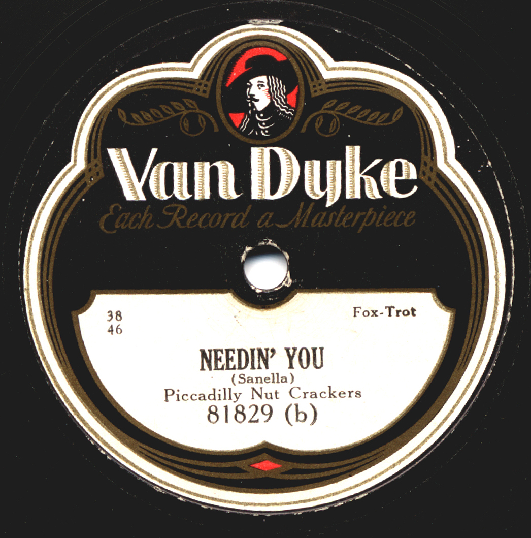 Van Dyke, US record label produced by Grey Gull c. 1929-30, featuring composition by multi-instrumentalist Andy Sannella (1900-62).